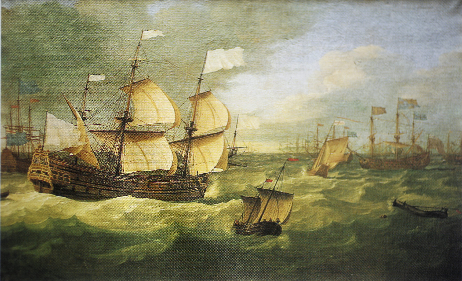 French ship Saint-Philippe, of 78 guns, at the Battle of Solebay